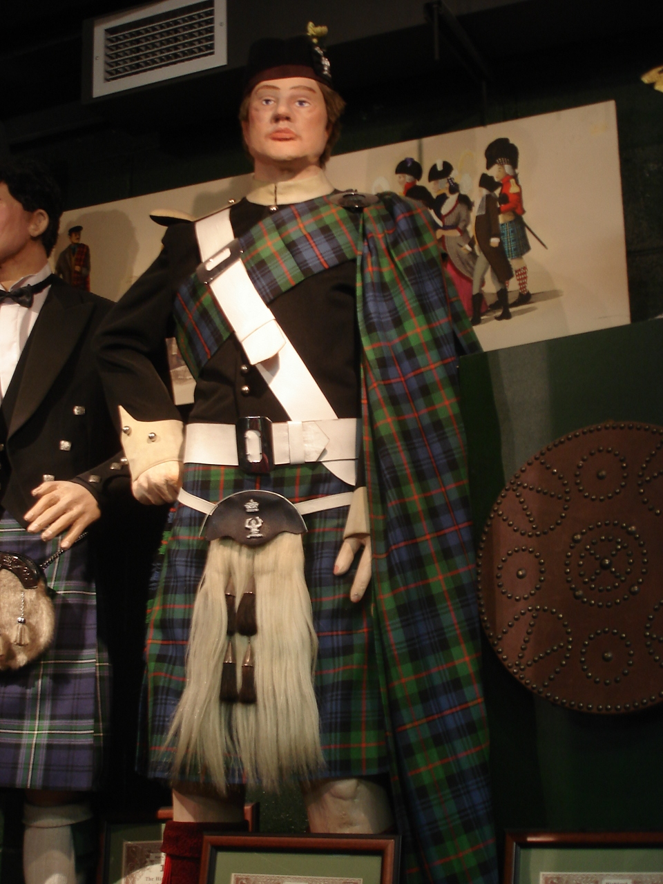 Mannequin depicting the dress of the Atholl Highlanders